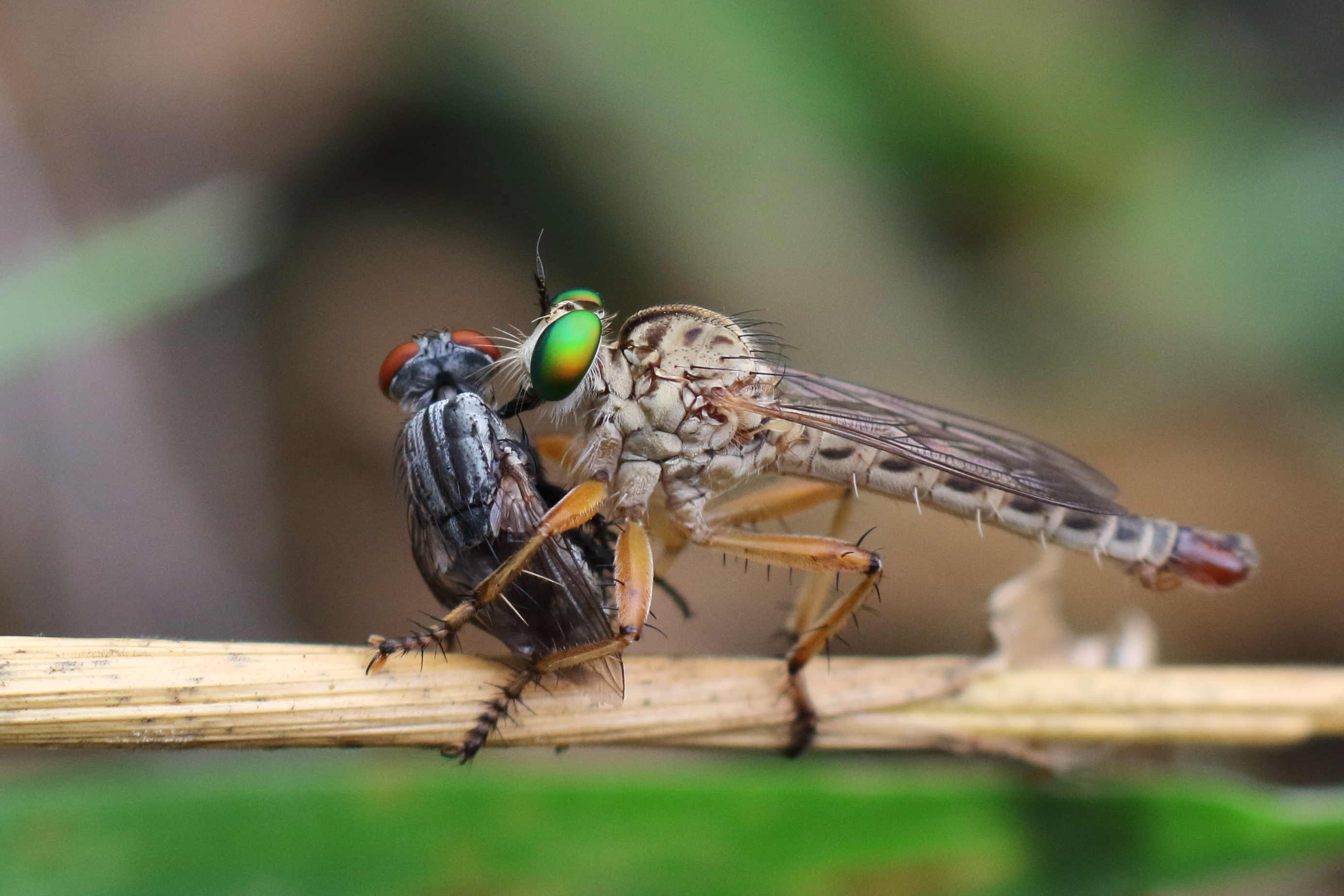 Robber flies, are powerfully built, bristly flies with a short, stout proboscis enclosing the sharp, sucking hypopharynx. The name "robber flies" reflects their notoriously aggressive predatory habits; they feed mainly or exclusively on other insects and as a rule they wait in ambush and catch their prey in flight. POP : Tamil Nadu, India